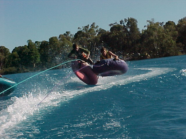 Teenagers biscuiting on a lake outside Collie, Western Australia. Both of them actually land it.